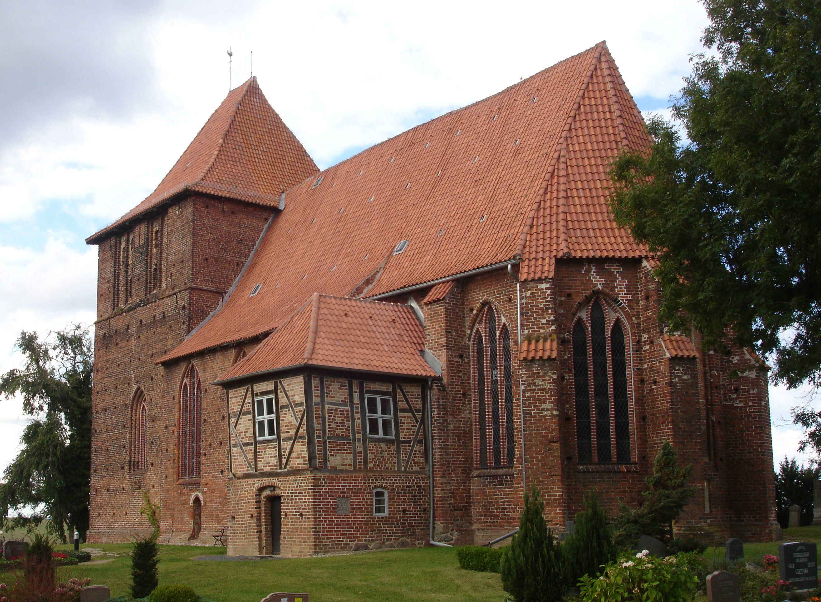 Church in Hohenkirchen, district Nordwestmecklenburg, Mecklenburg-Vorpommern, Germany